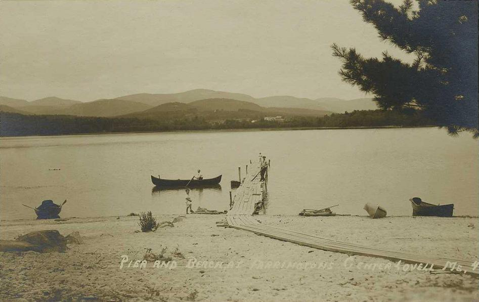 Pier and beach at Farrington's, Center Lovell, Maine. Farrington's Hotel was built in 1911.